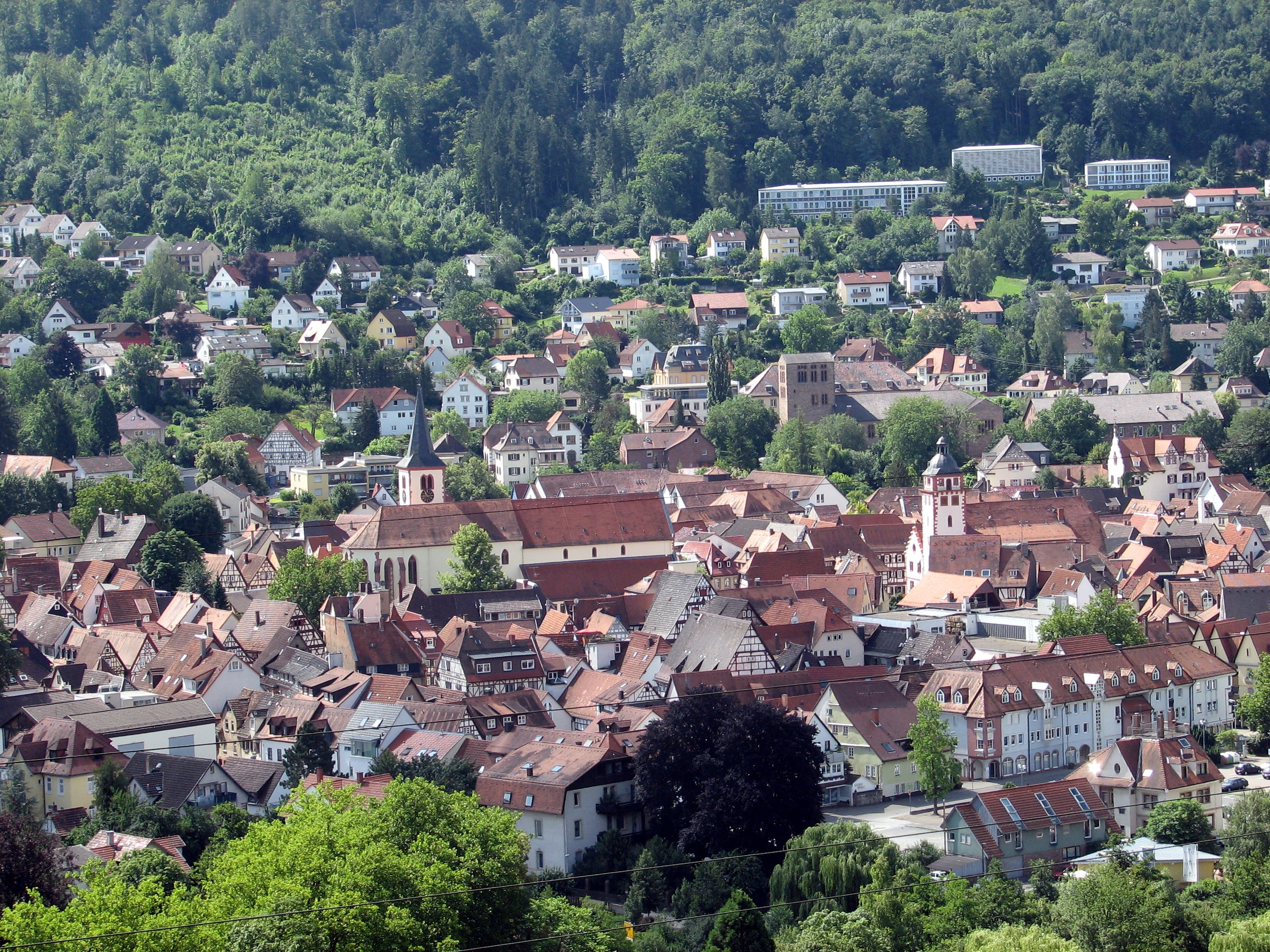 Modern Merian view of Mosbach